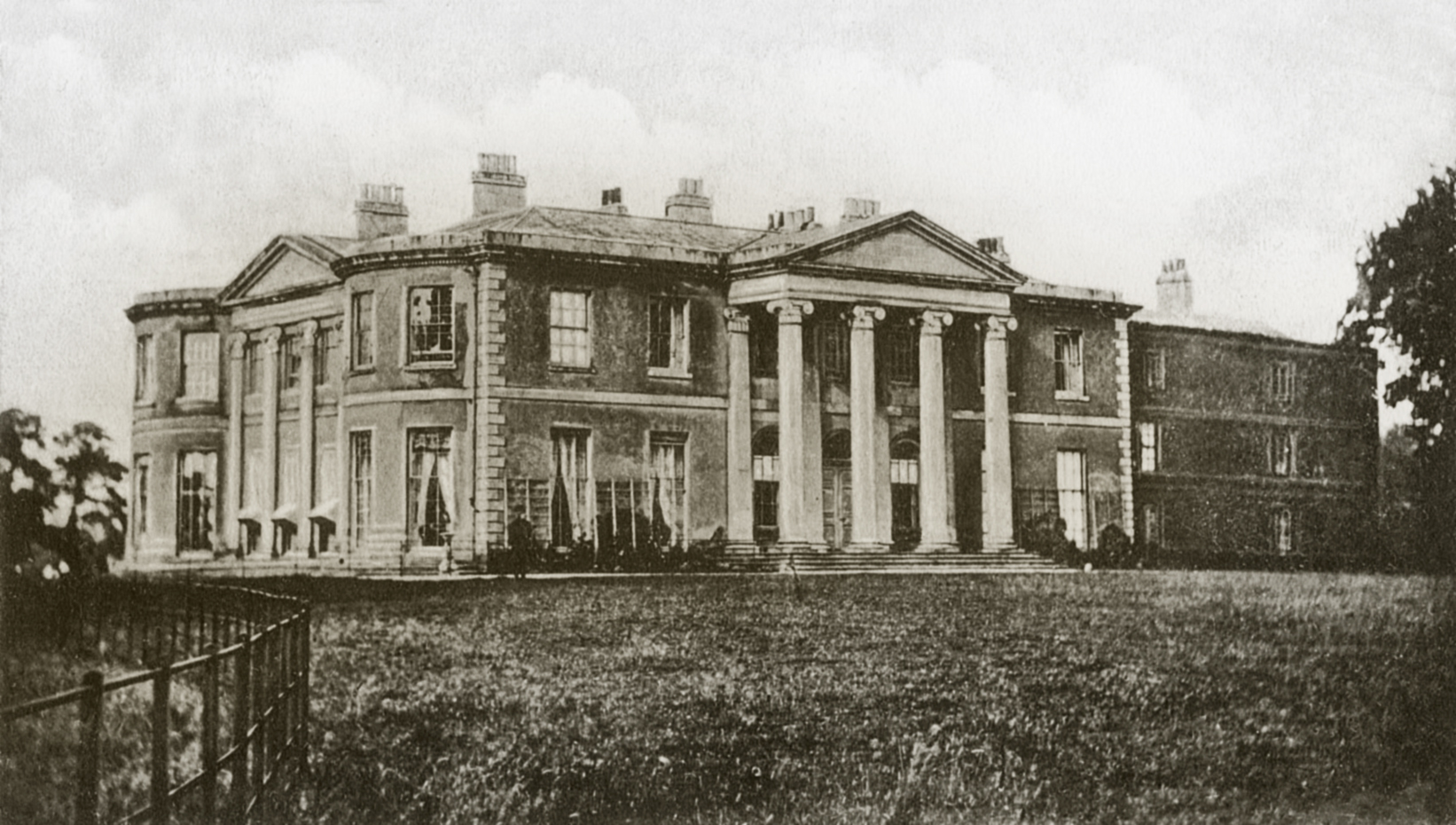 Willingham House, Market Rasen, Lincolnshire. South entrance front. Photographed circa 1900. Demolished 1967.